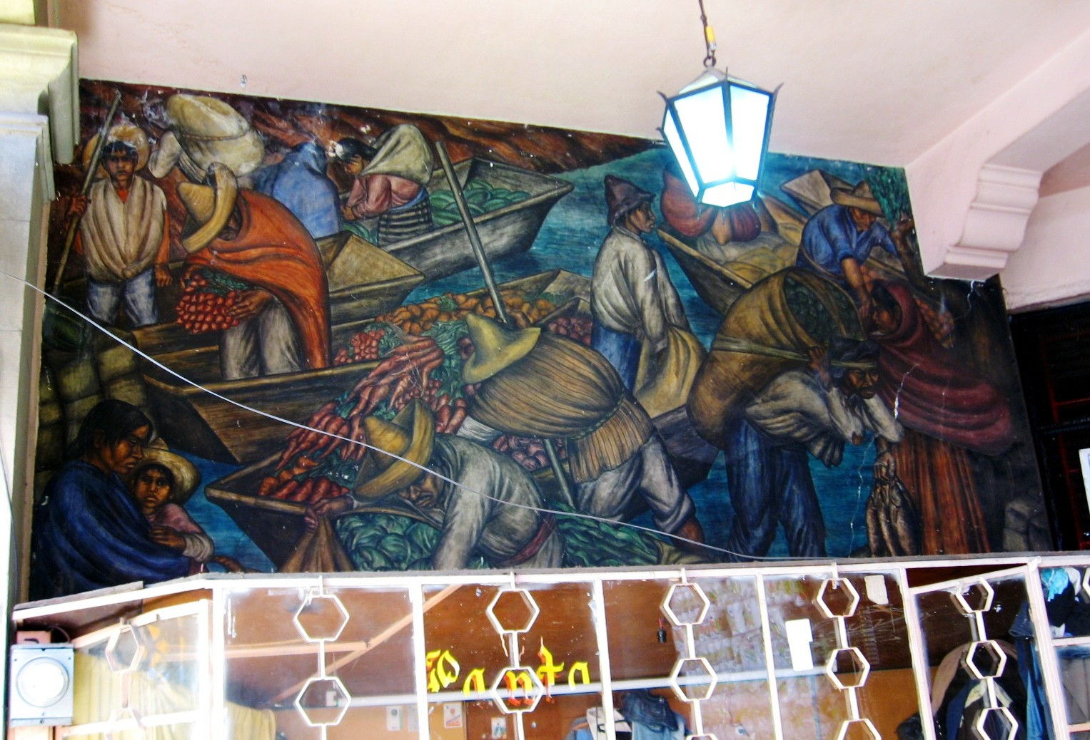 Loading fruits and vegetables for market mural called Los mercados by Marion Greenwood in the Abelard Rodriguez Market, location in the historic center of Mexico City